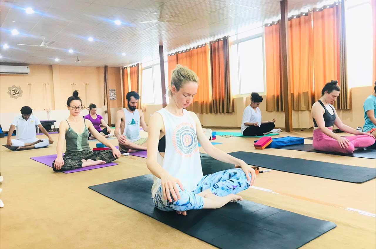 Therapeutic Yoga is about learning the main aspects of yoga including psychology and philosophy. It is a clear way to become well organized and integrated into your daily teaching life. The study may include Texts of Hatha Yoga, Patanjali’s Yoga Sutras and The Five Kosha Model.